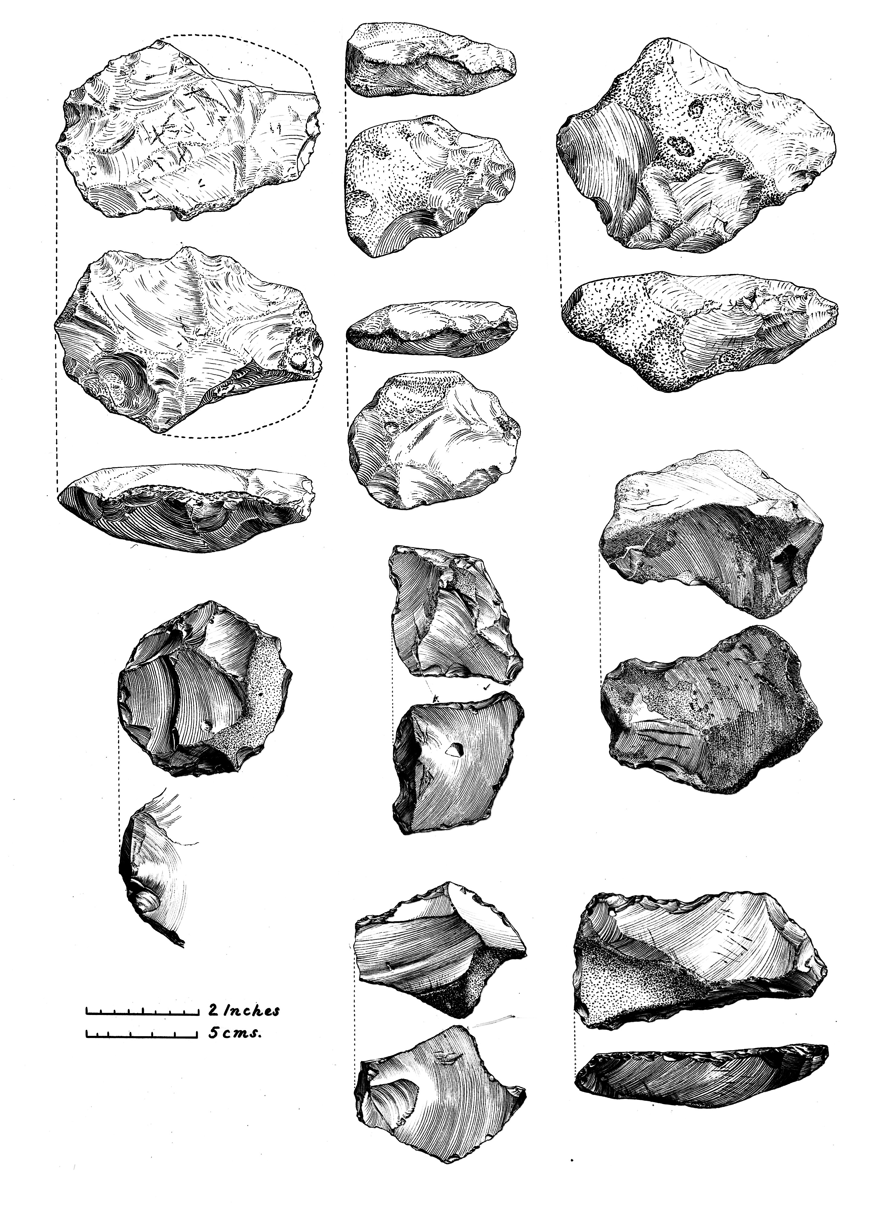 Pleistocene deposits of the Thames valley. Abbevillian implements from Burnham Beeches, gravels of the upper Boyn Hill Terrace. General Collections Keywords: prehistoric; Archaeology; Geology